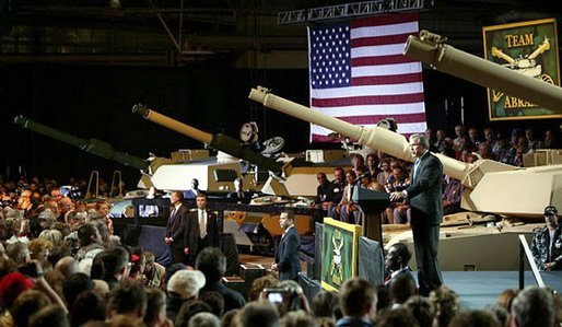 President George W. Bush addresses employees of the Lima Army Tank Plant, where the Abrams M1A2 tank is built, in Lima, Ohio, April 24, 2003. "I'm here to thank you all for your service to our country, and thank you for the vital contribution you have made to peace and freedom," said the President in his remarks. "And each of you have had a part in this mission. Each of you are a part to making sure this country is strong enough to keep the peace." White House photo by Paul Morse